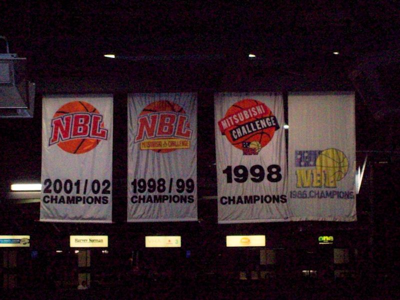 Adelaide 36ers NBL Championship banners @ The Dome (March 4, 2011)